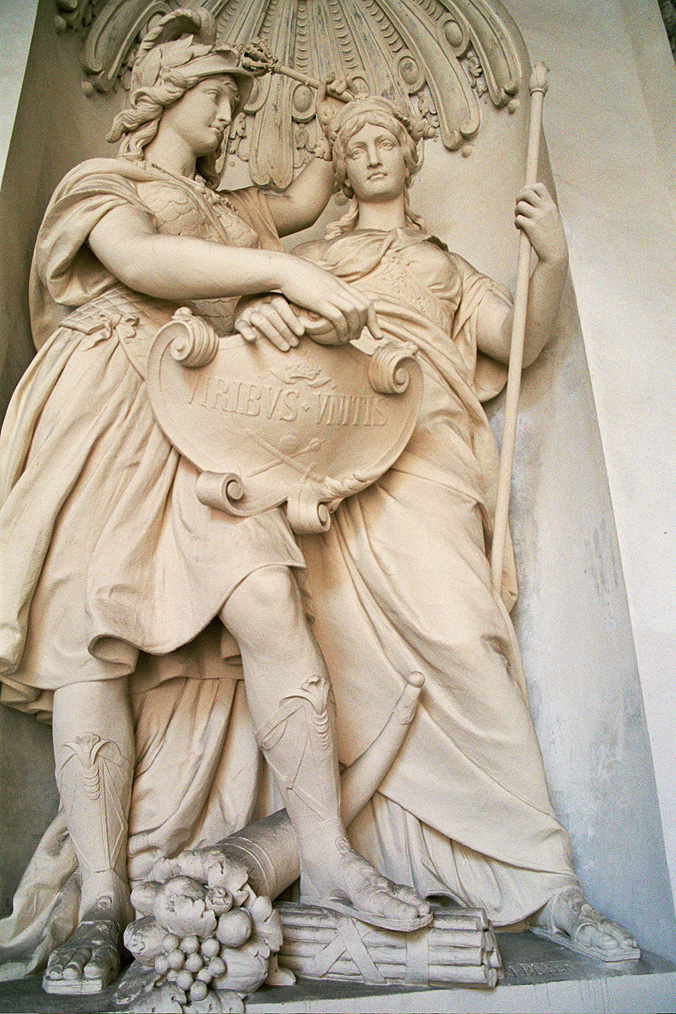 Allegorical depiction of Viribus Unitis at the inner Burgtor of the Hofburg in Vienna